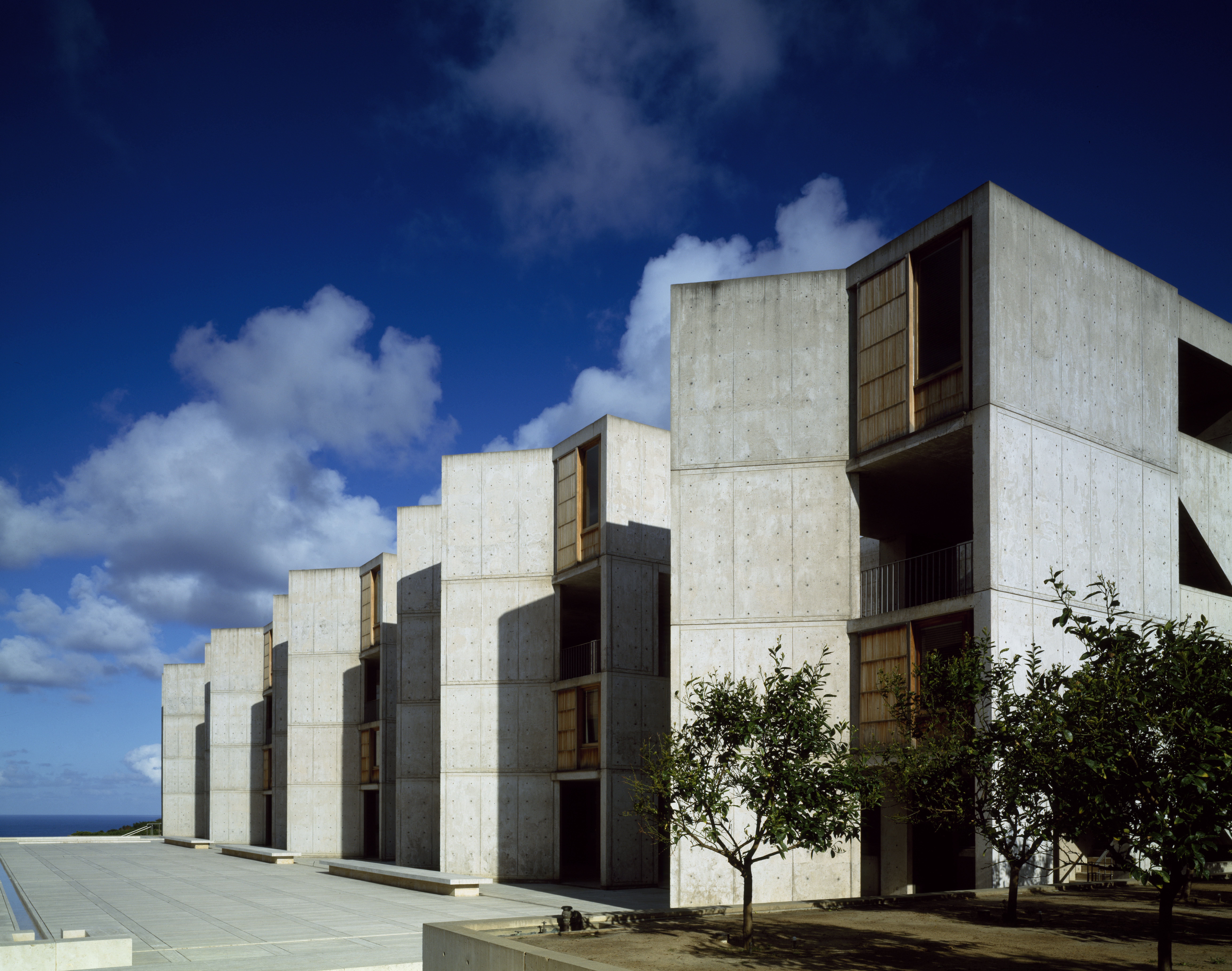 Salk Institute from interior courtyard in La Jolla, CA